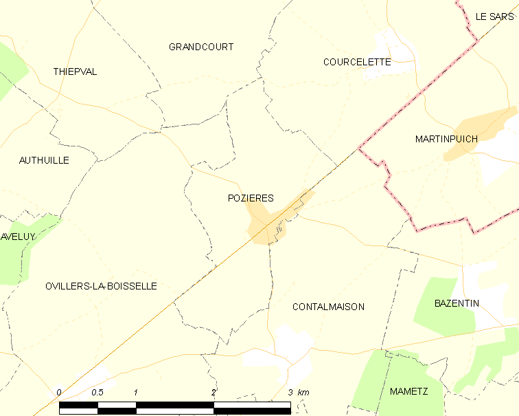 Map of French municipality Pozières